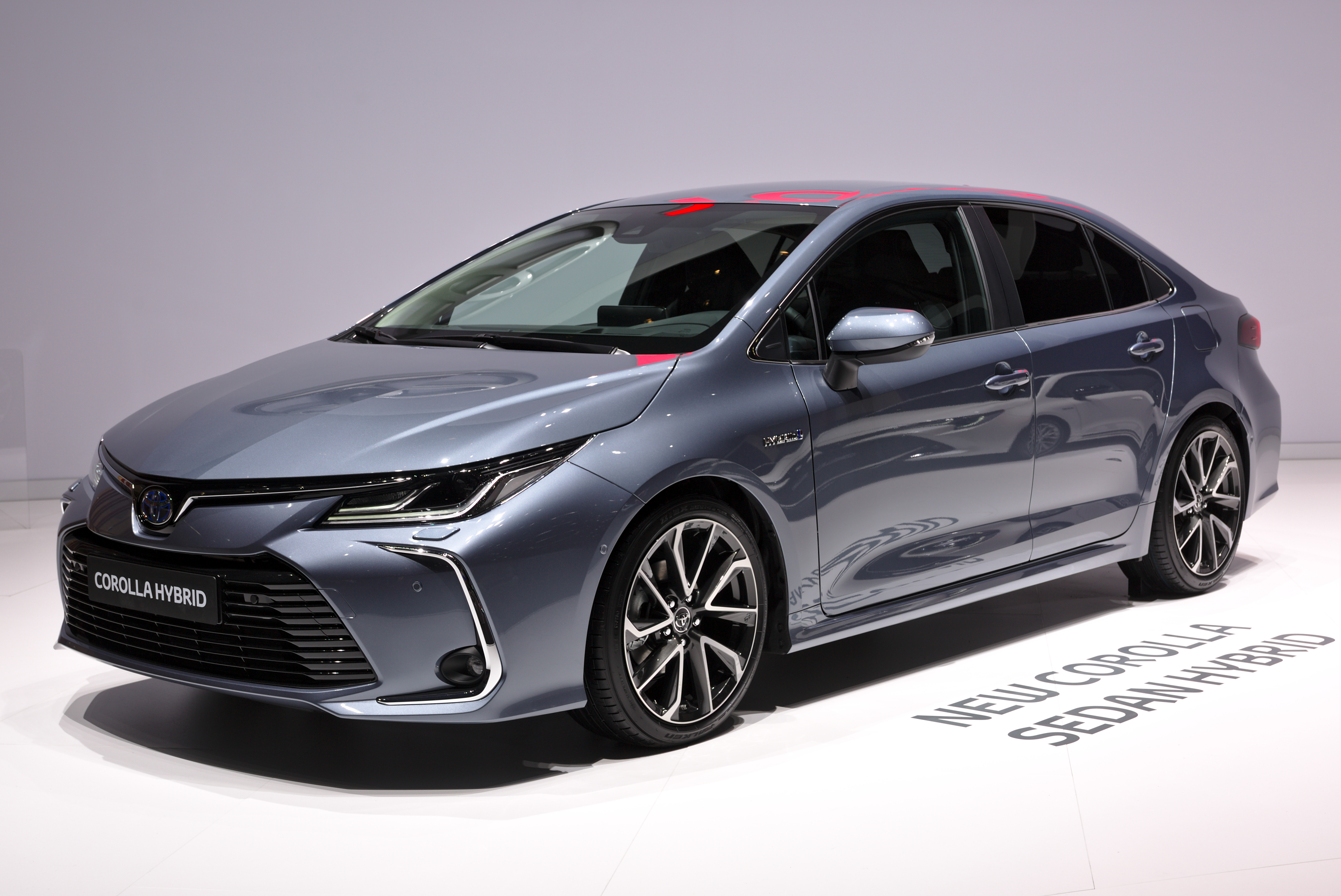 Toyota Corolla Limousine Hybrid at Geneva Motor Show 2019